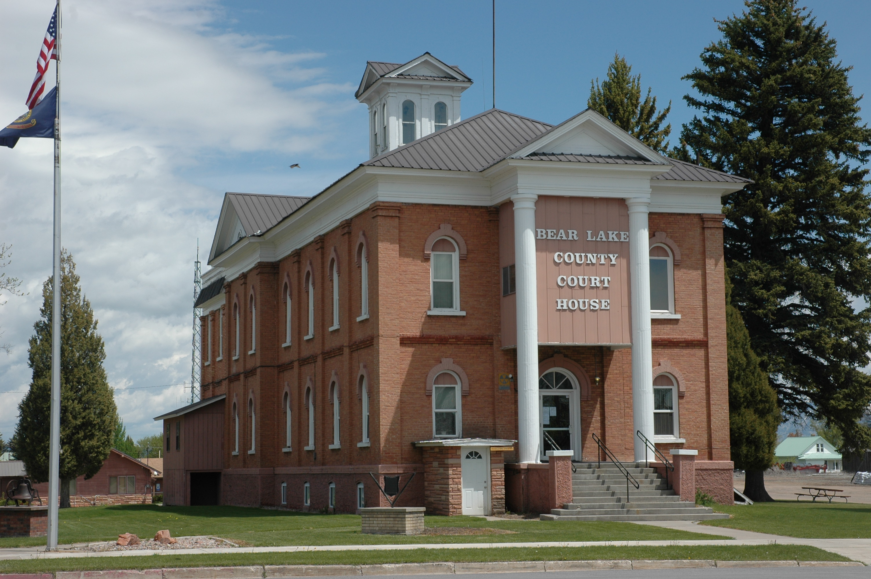 The Bear Lake County Courthouse, a historic building in Paris, Idaho, United States.